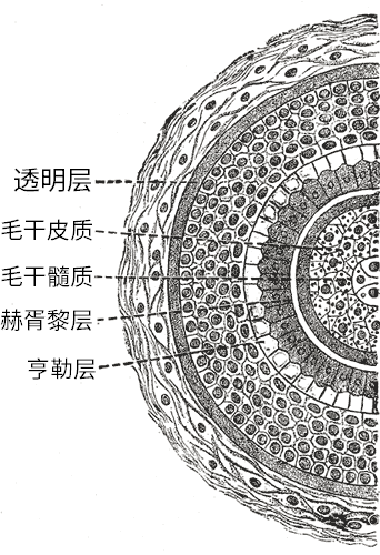 hyaline layer, cortex of hair, medulla of hair, Huxley's layer, Henle's layer, Outer or dermic coat